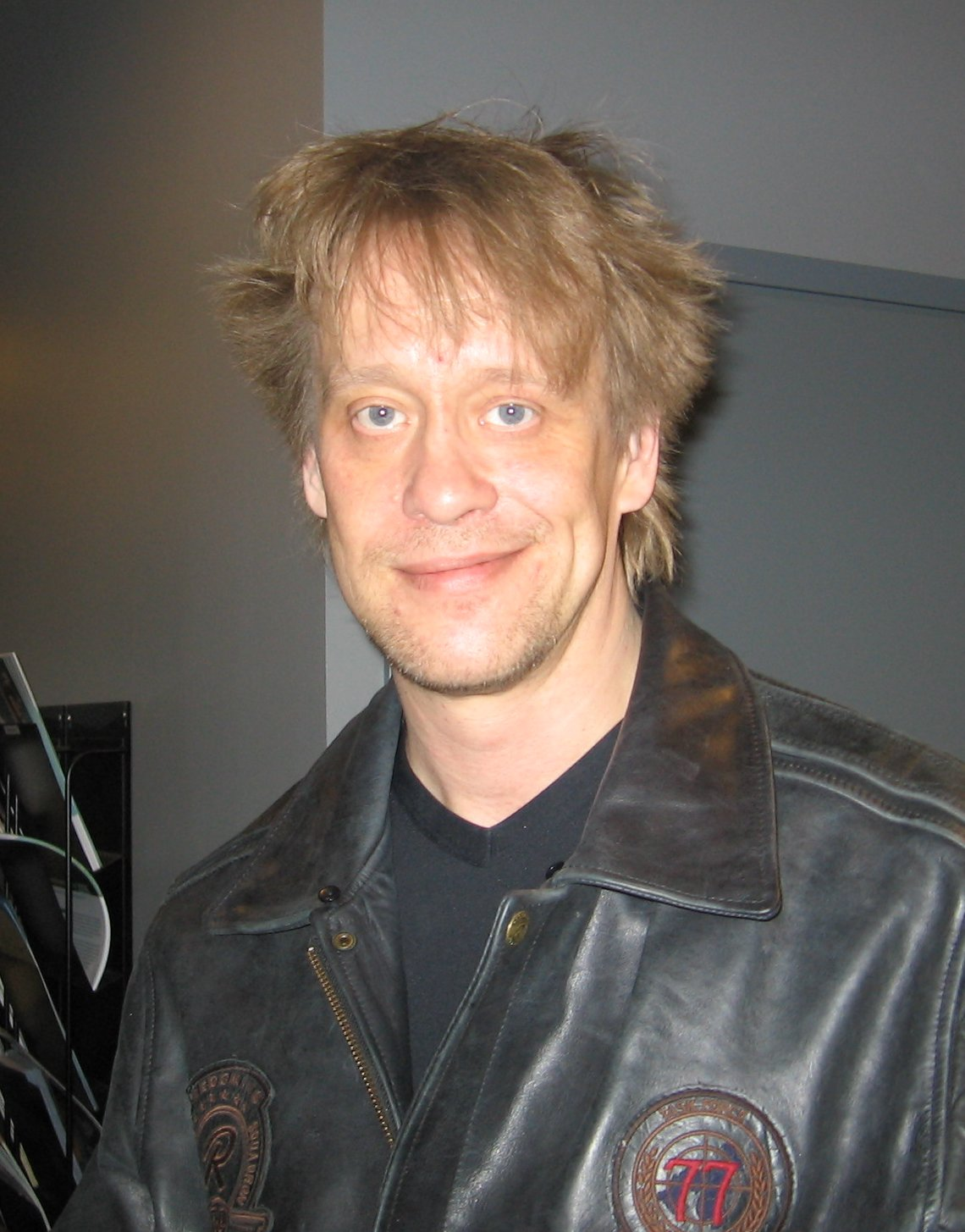 Picture of Martti Syrjä